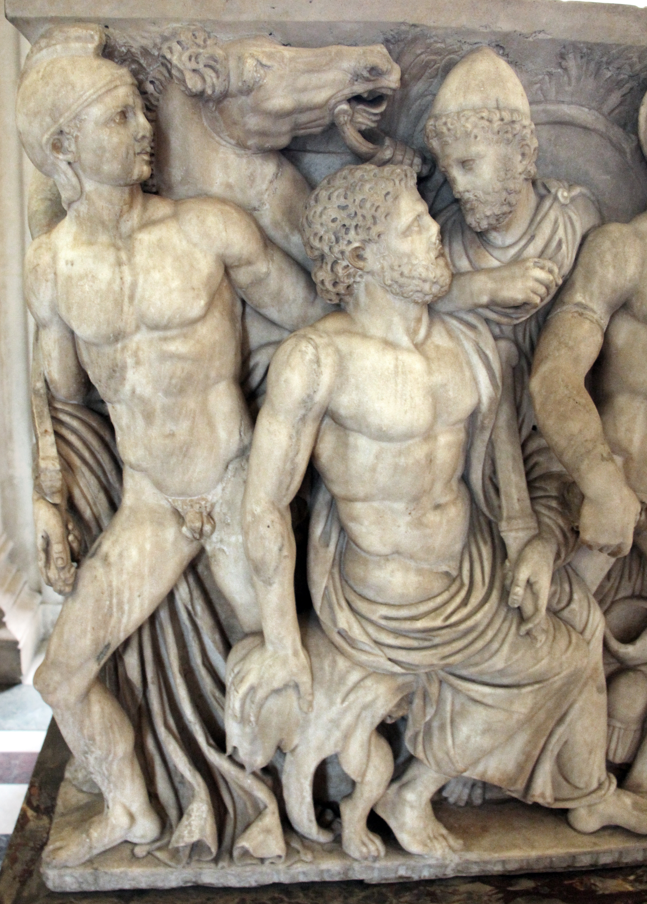 Roman antiquities in the Louvre